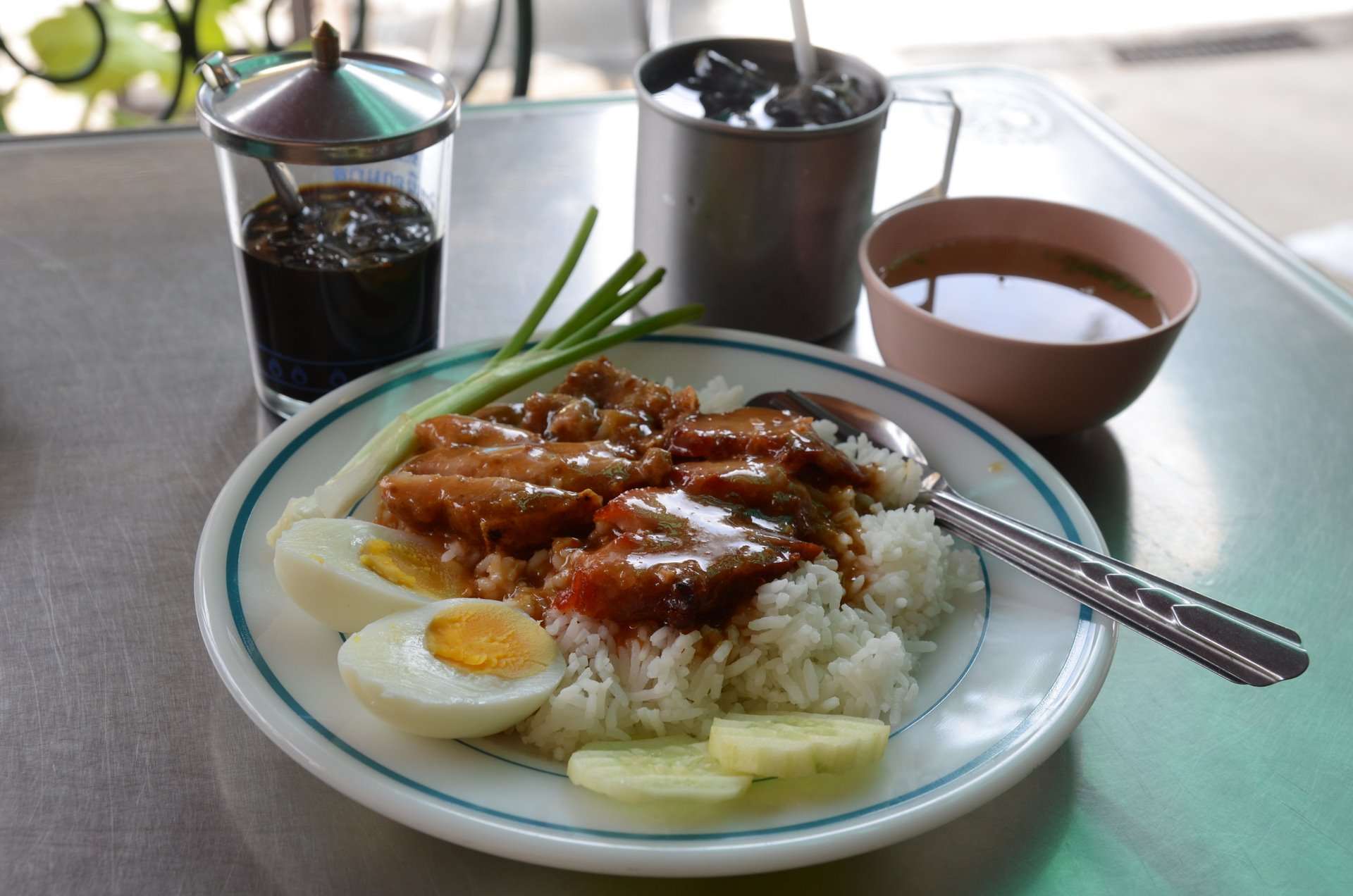 Khao mu krop mu daeng (Thai script: ข้าวหมูกรอบหมูแดง) are slices of mu krop (literally: "crispy pork"; a kind of Siu yuk) and mu daeng (literally "red pork"; Char siu) served on rice, and often covered with a sticky soya and/or oyster-sauce based sauce. Very often, a clear soup, boiled egg, cucumber, and spring onion is served on the side. Sliced chillies in Chinese black vinegar and dark soy sauce is provided as a condiment for this dish.